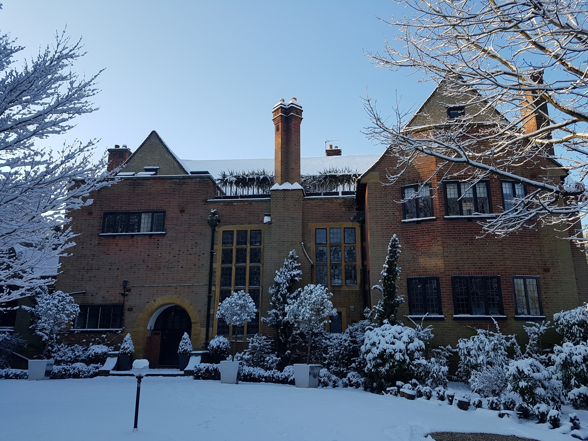 Stotfold